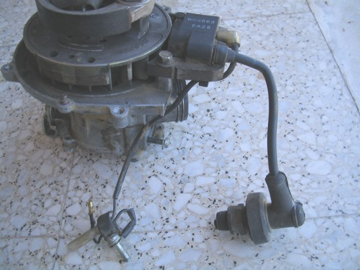 Ignition system of a motor powered scythe